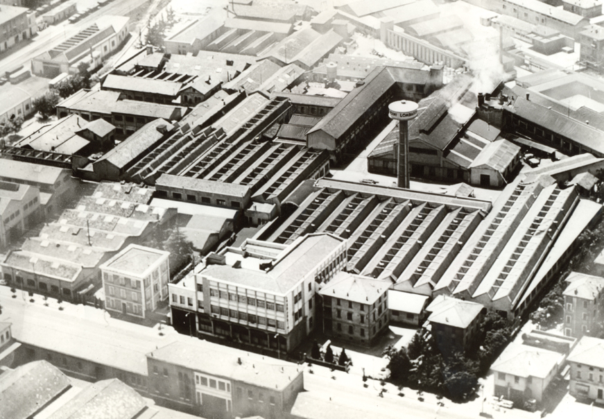 Winter 1940s, the Lombardini factory under the snow in Gardenia.